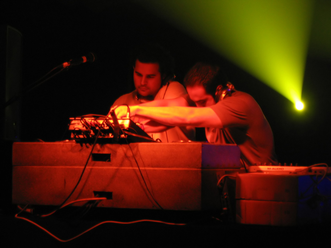 I took this picture at a live performance by The Crystal Method at Earthlink Live in Atlanta, Georgia. It's posted to deviantArt here, and there is a print available.